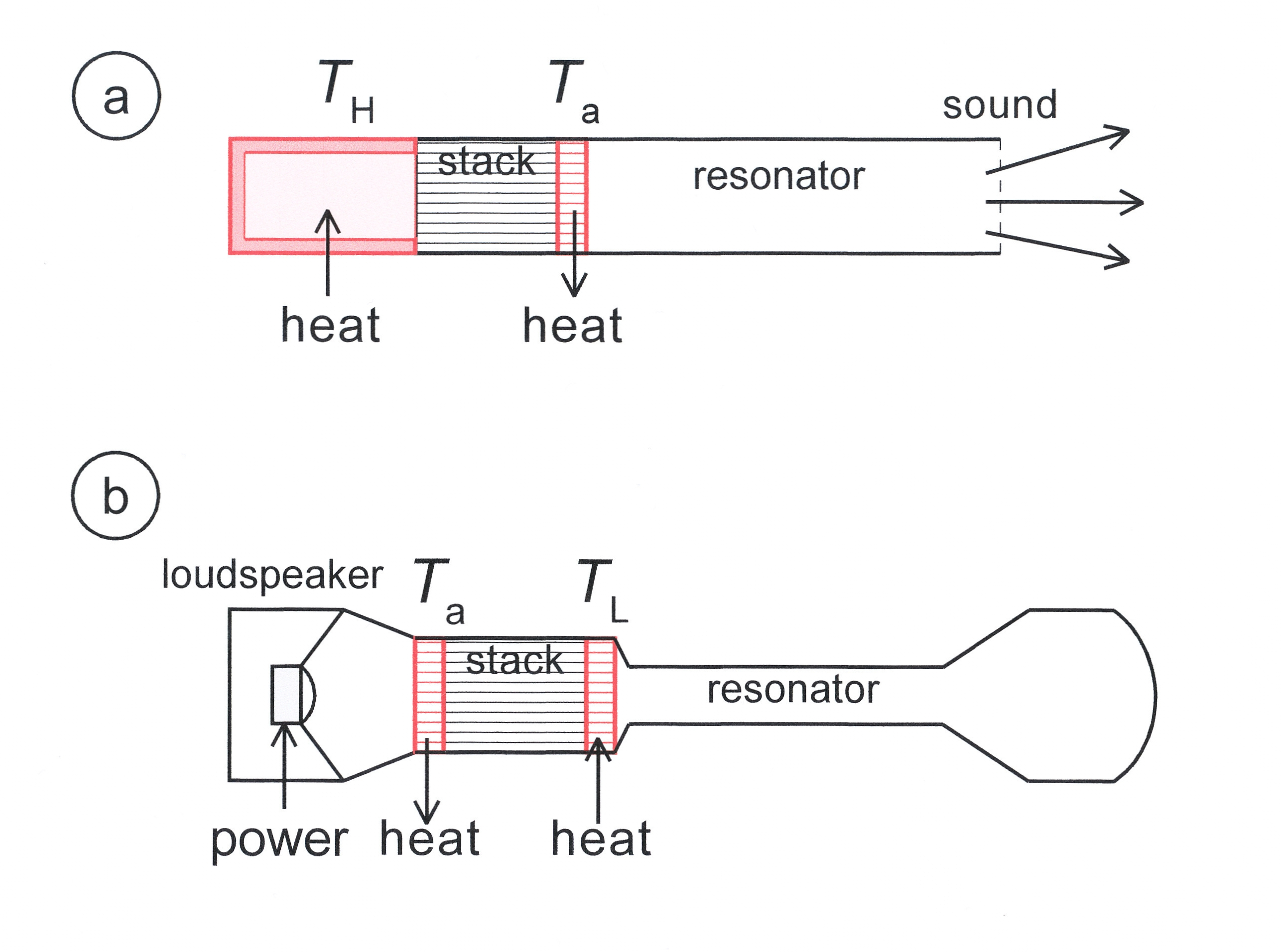 Schematic diagram standing wave systems